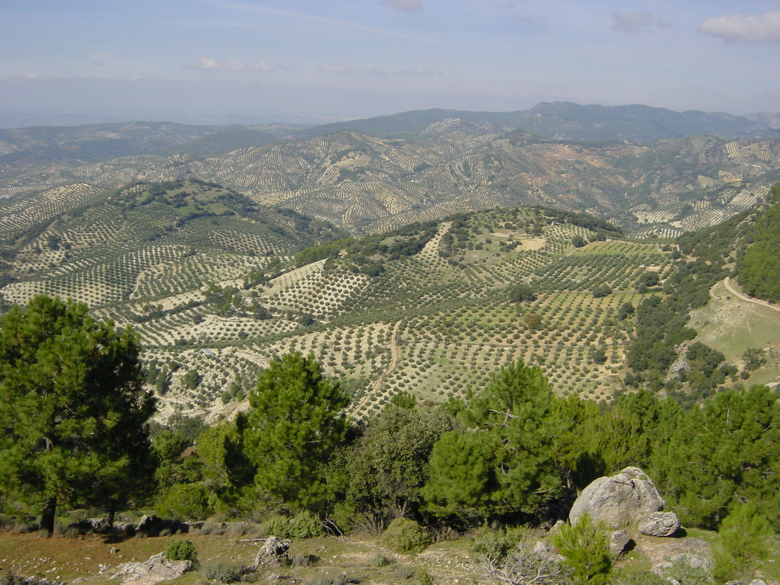 Olive groves in Baños de la Encina, province of Jaén, Andalusia, Spain